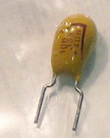 Tantalum 10uF, 35V radial capacitor.